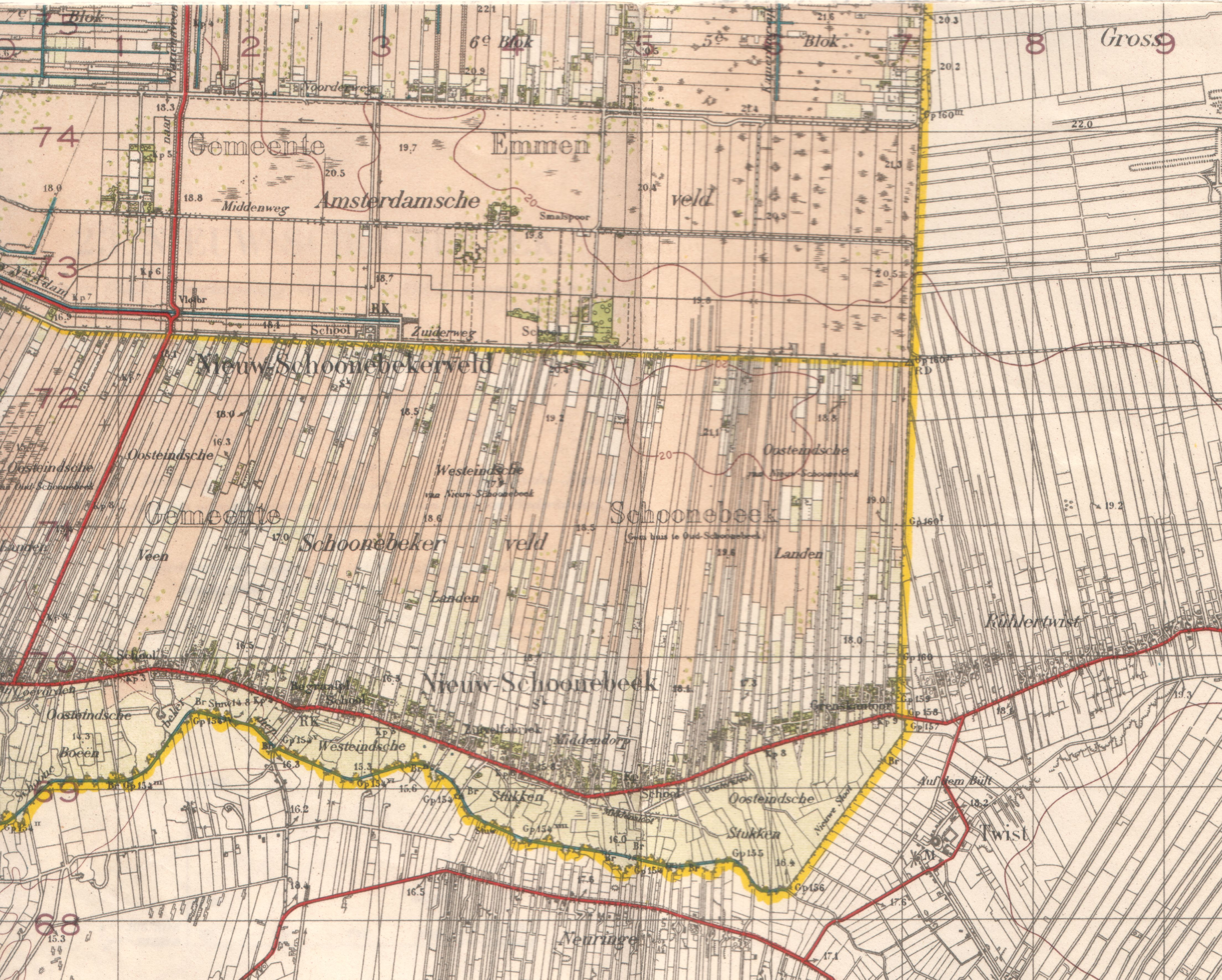 Topographical map of the most southeast part of the province of Drenthe in The Netherlands in 1935. Since it is more than 70 years old it is public domain.